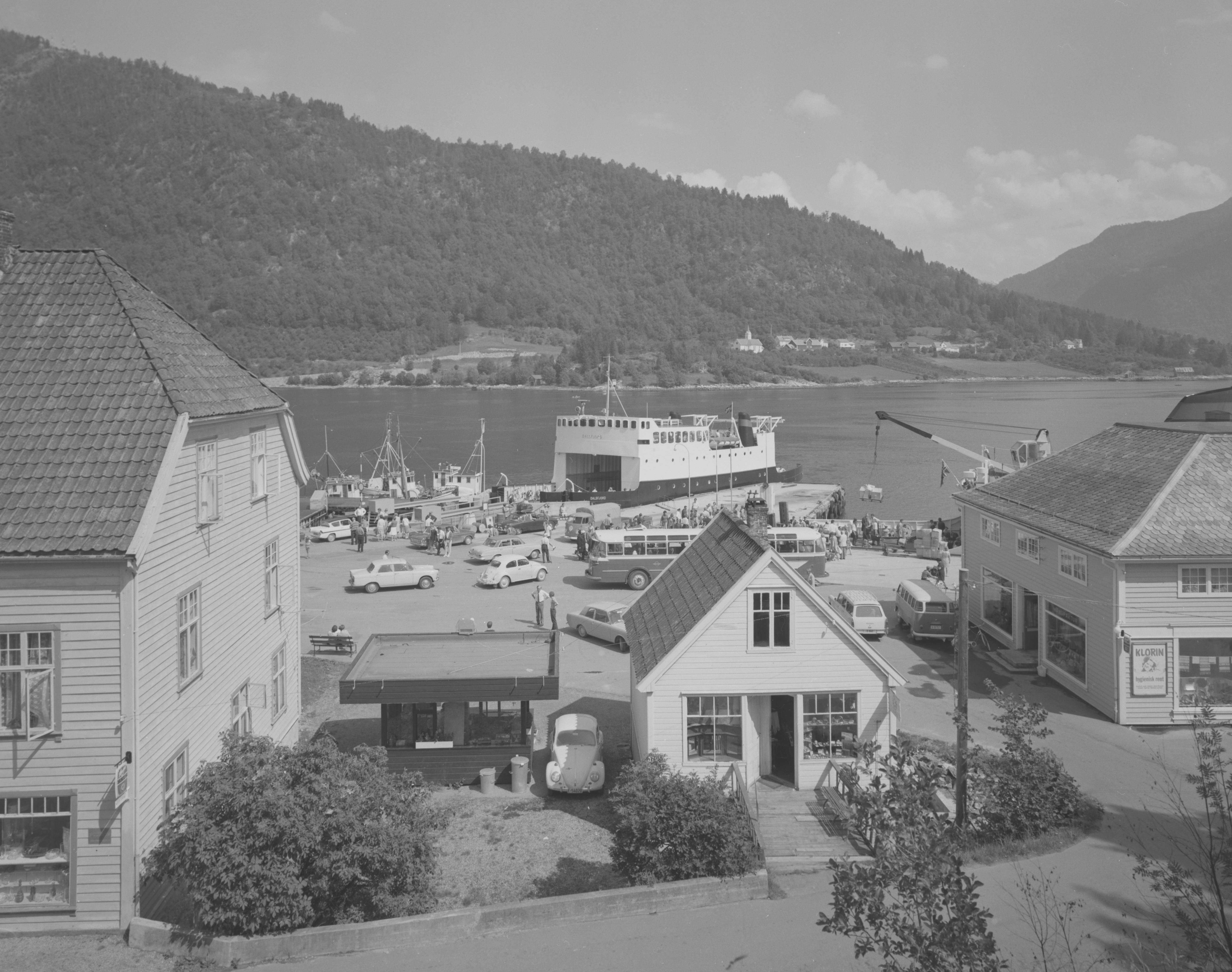 Balestrand ferry terminal with ferry Dalsfjord